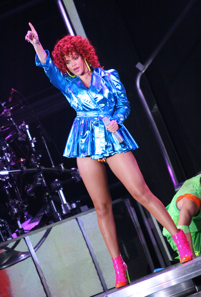 Rihanna Live at Target Center on her LOUD Tour.